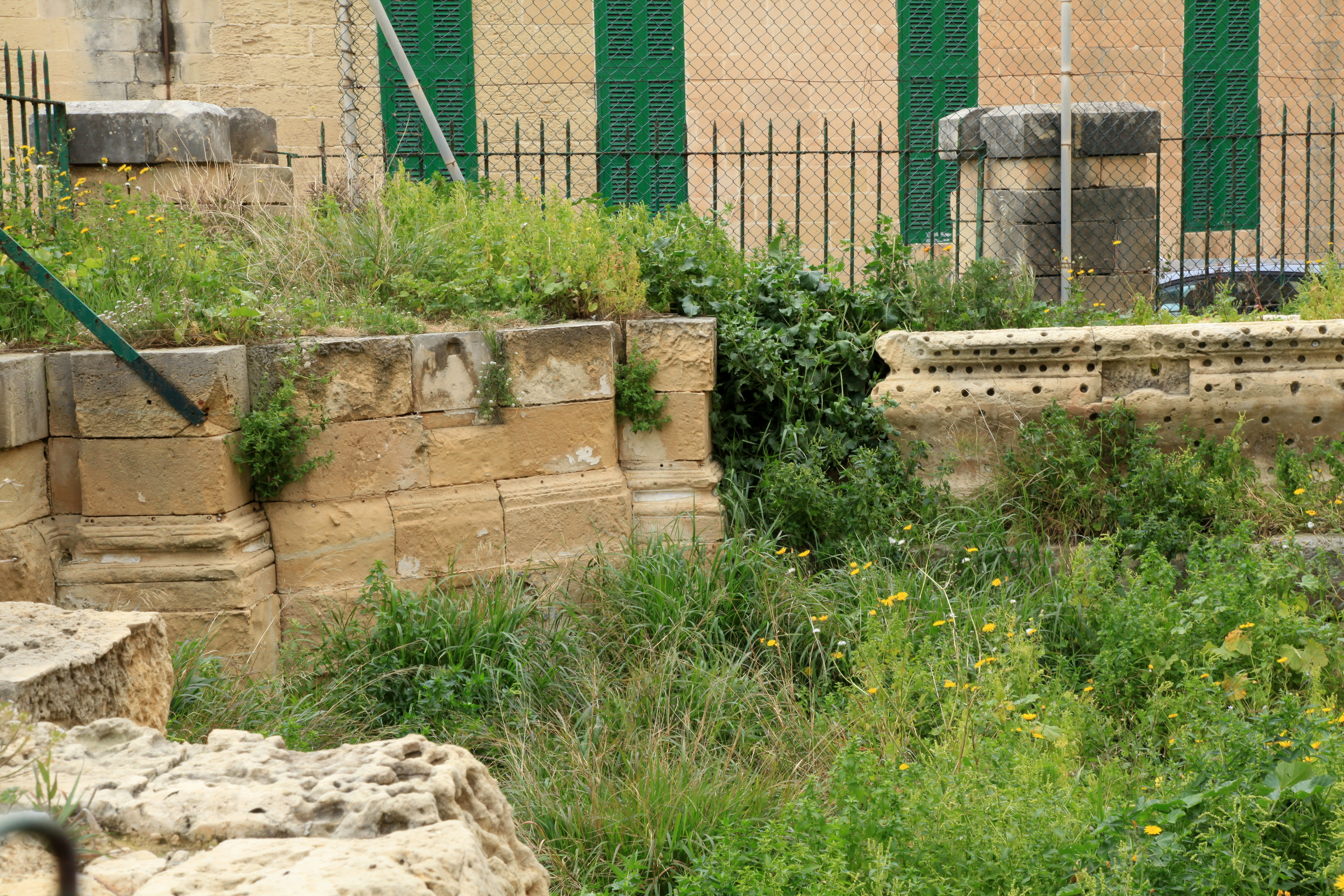 Chapel of Bones, Triq it-Tramuntana in Valletta, Malta